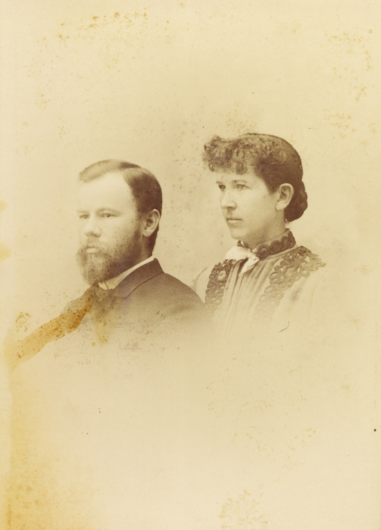 Portrait photograph of American ichthyologists Carl H. Eigenmann (1863-1927) and Rosa Smith Eigenmann (1858-1947)